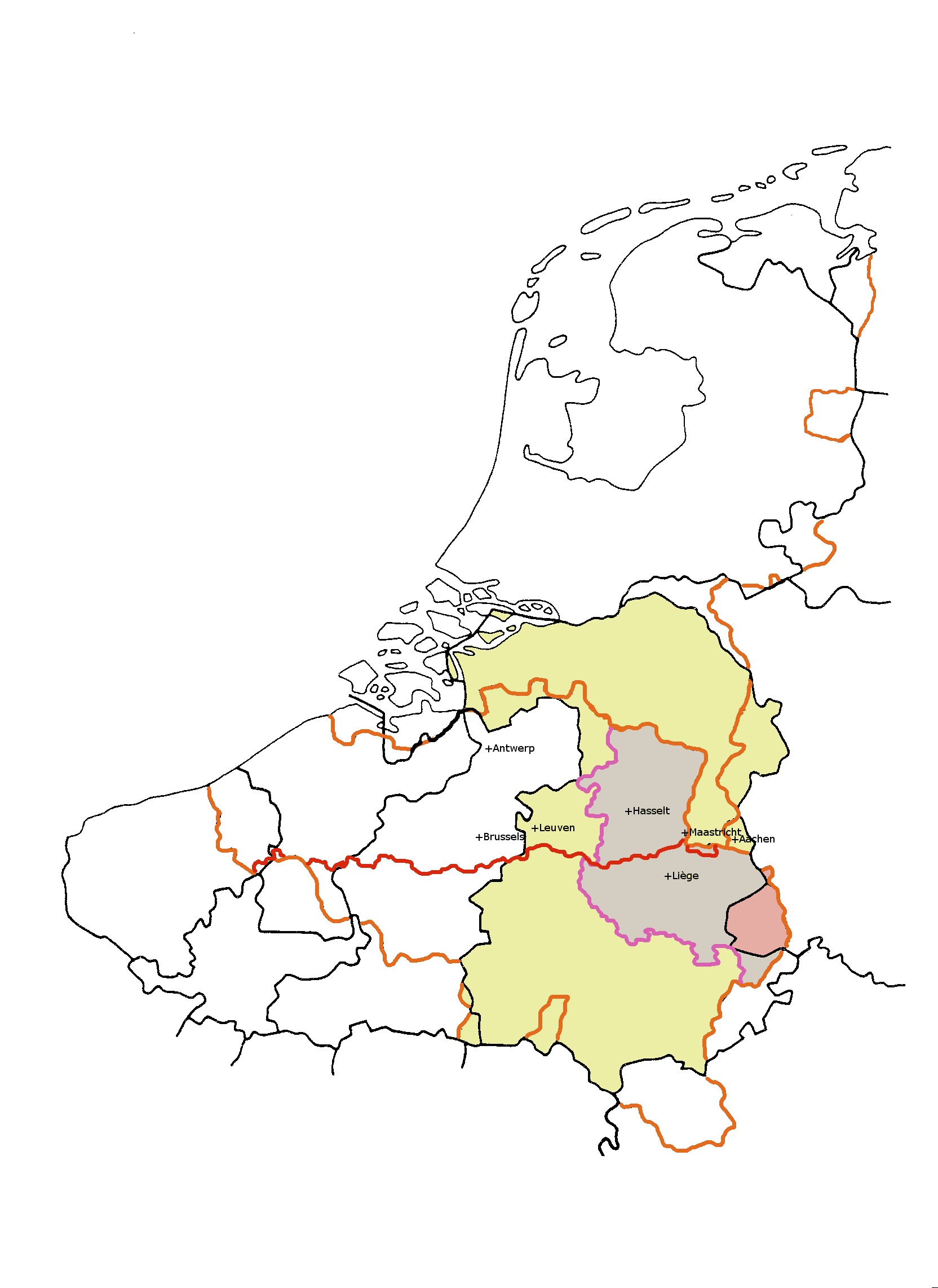 This is a map showing how large the diocese once was, and comparing it to modern boundaries. It was larger than the princely territory of the medieval prince bishops. Also, this map can be used as an indicator of the possible size and shape of the civitas tungrorem which it evolved from